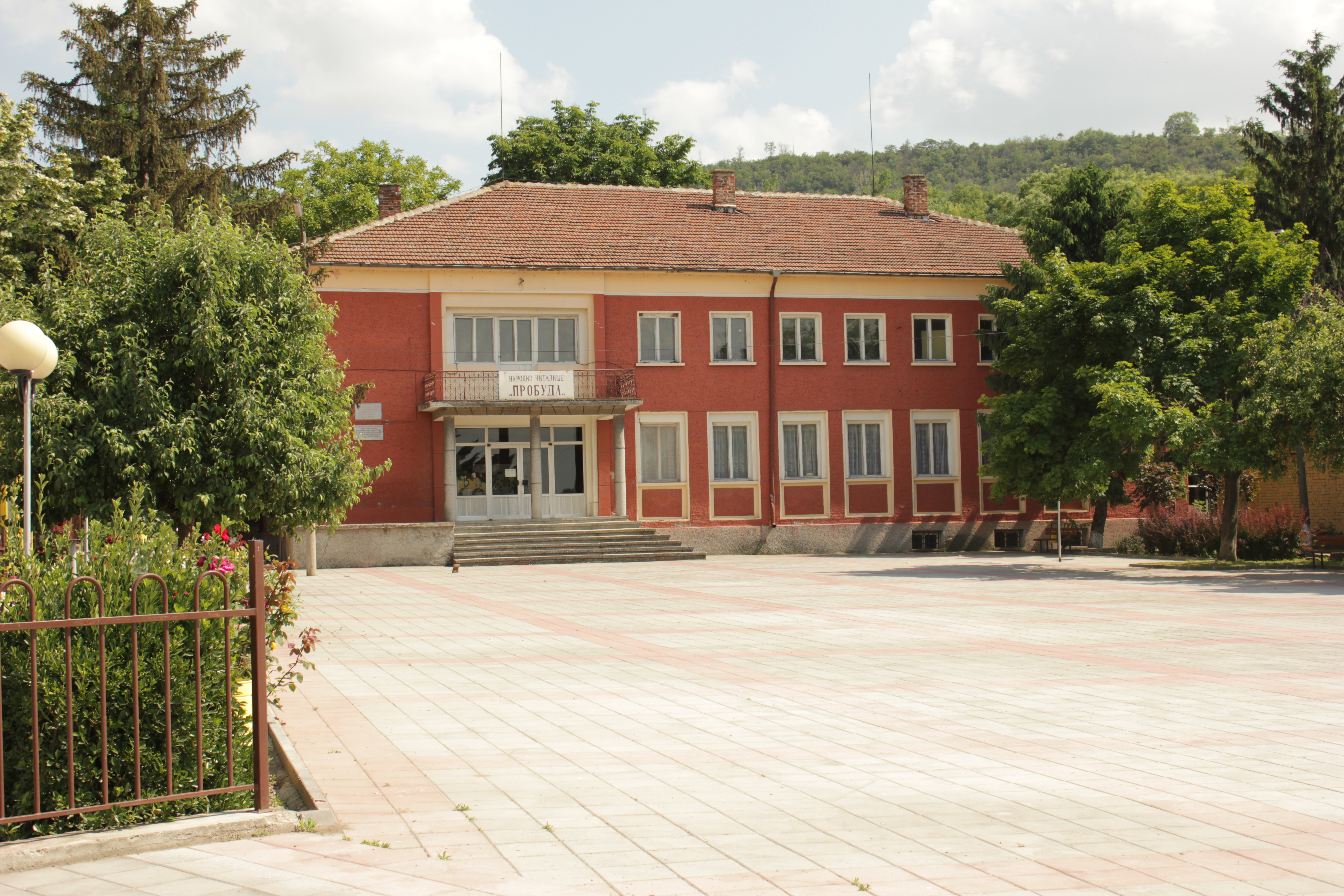 Somovit Chitalishte